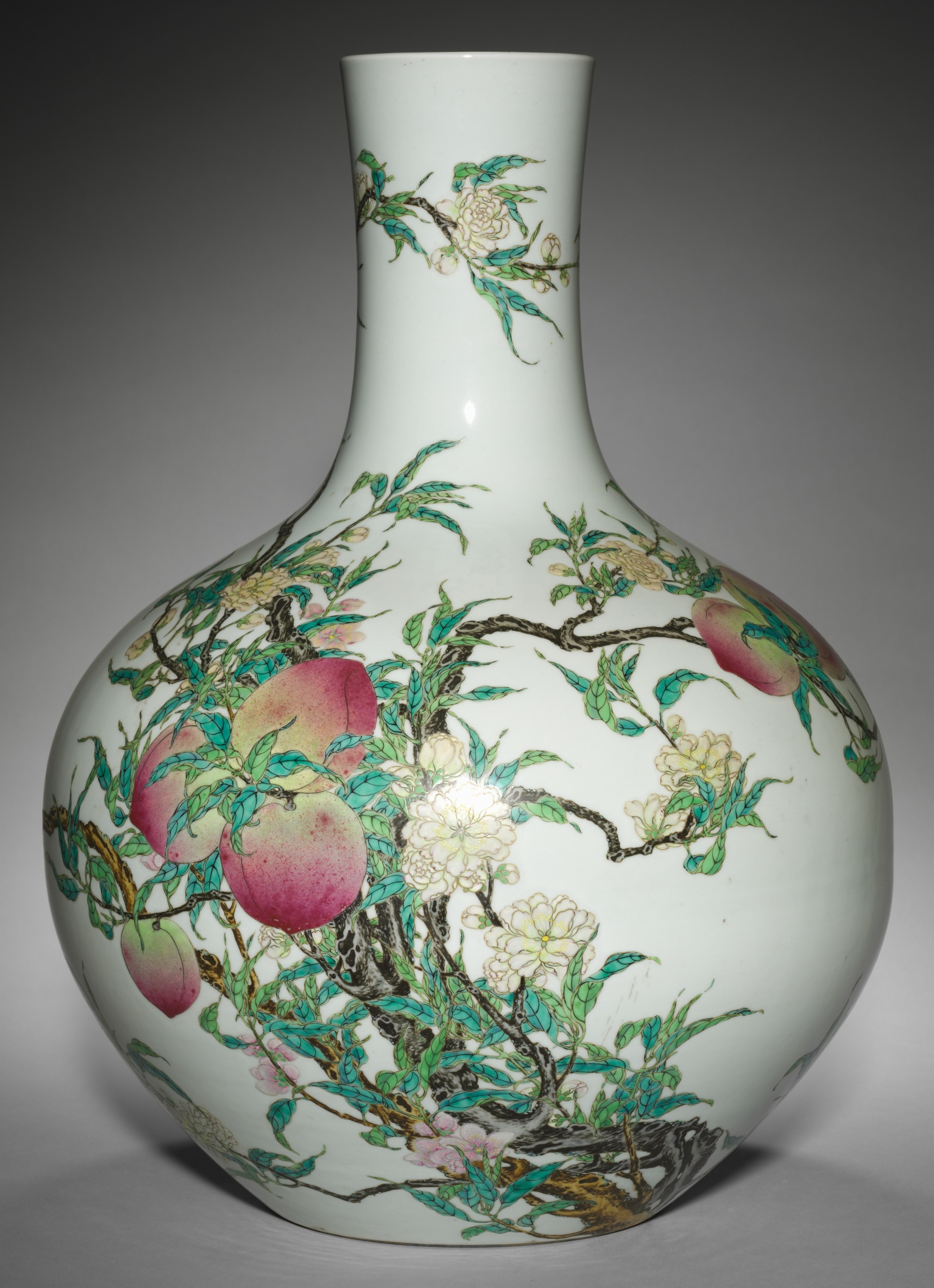 This spectacular vase, one of a pair in the collection, depicts flowering and fruiting peach trees to convey an auspicious message of affluence and long life. Developments in enamel technology led to new possibilities in polychrome decoration of Qing imperial porcelains. Pinks appeared, lending their name to the new palette of overglaze colors (famille rose), and the addition of opaque white allowed painters to vary the value of pigments, enhancing the painterly quality of porcelain decoration.